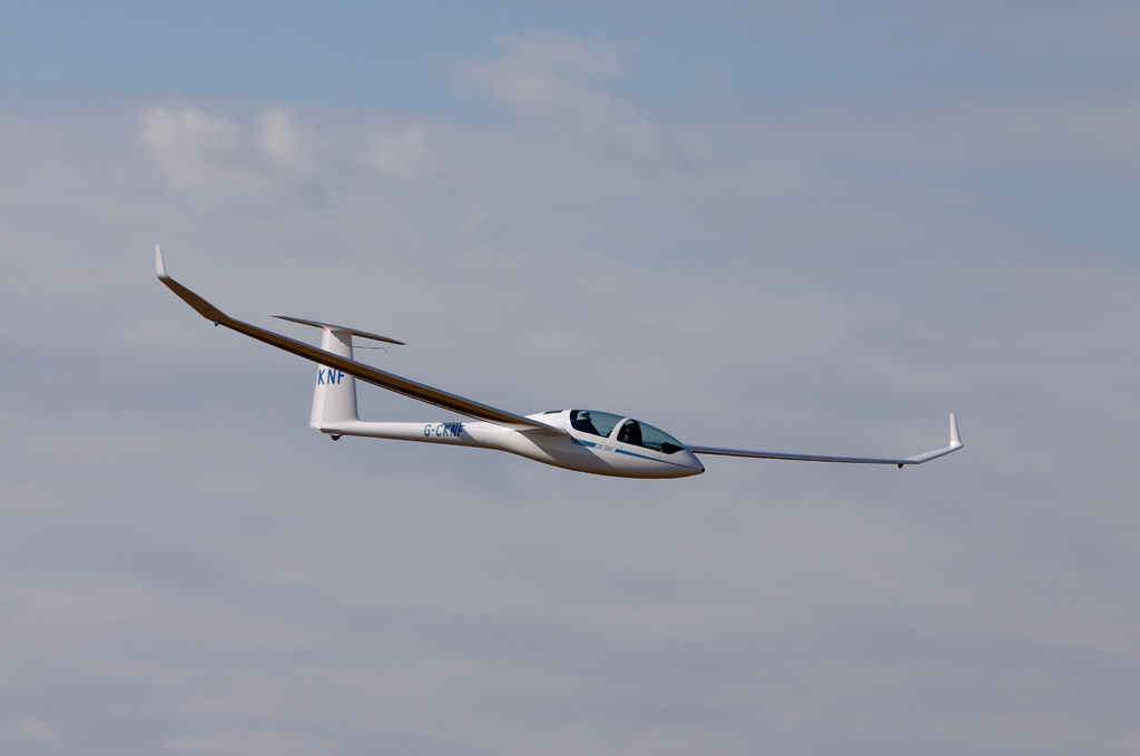 A DG 1000 glider